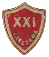 Emblem of XXI Liceum Ogólnokształcące (high school) in Warsaw